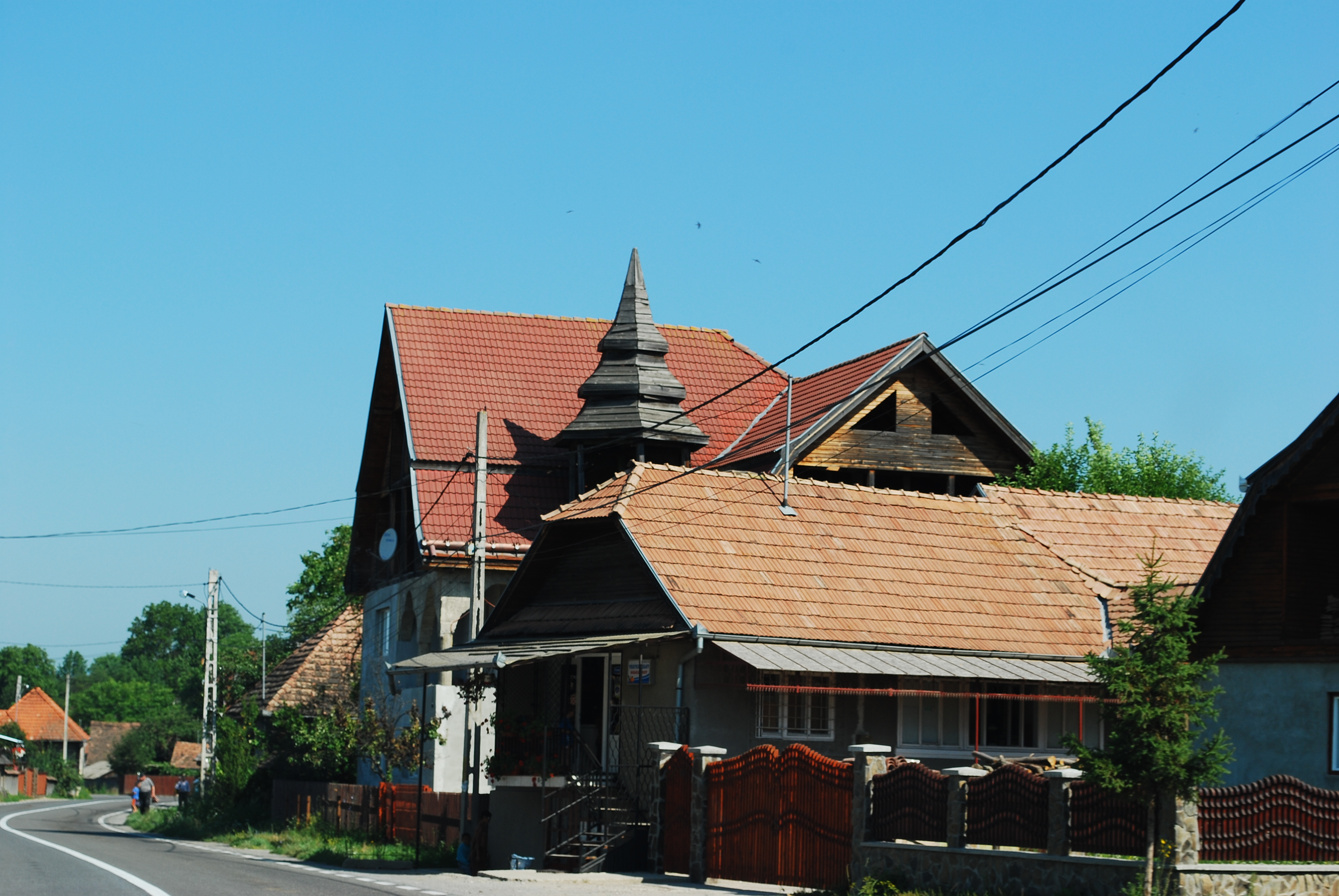 Houses from Ocna de Sus, Harghita County, Romania